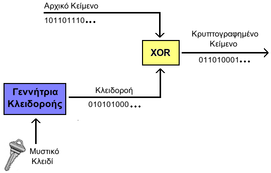 Stream cipher diagram